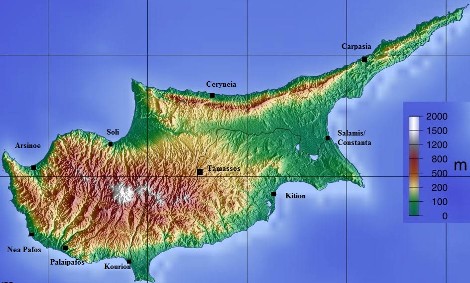 This is a topogrpahical map of Cyprus with important Roman Cities.